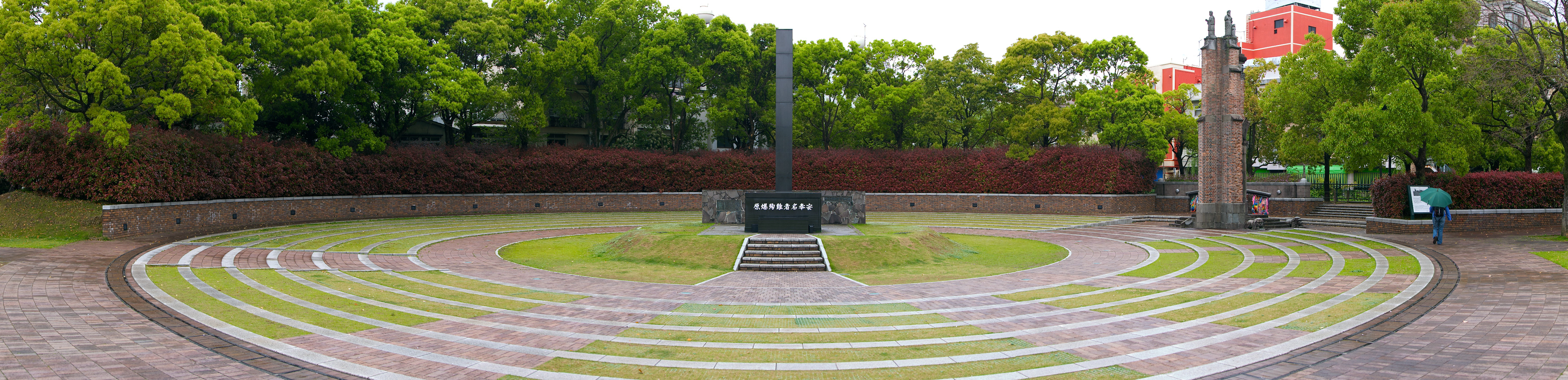 Panoramic view of the monument at the hypocentre of the atomic bombing in Nagasaki.